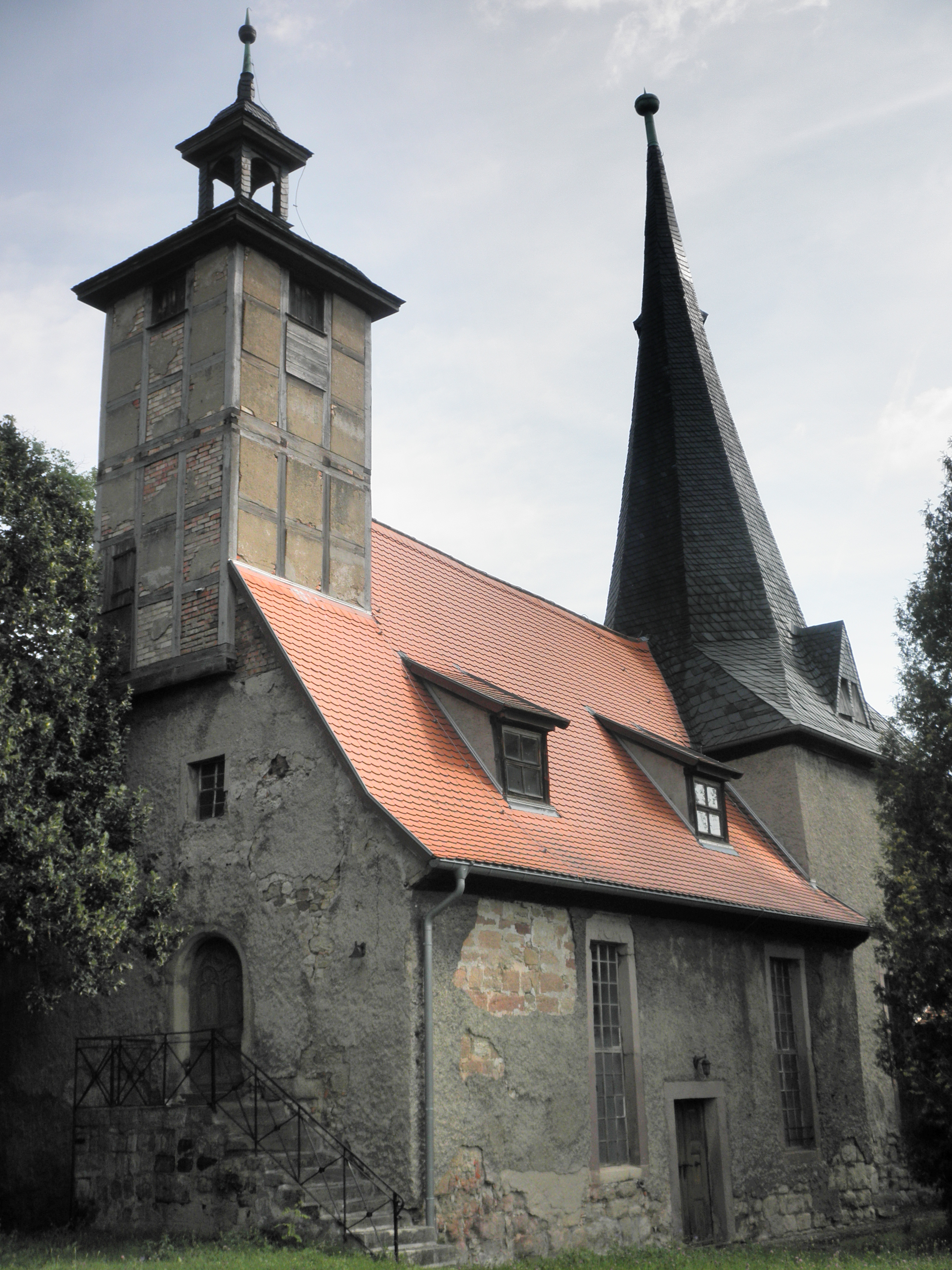 Church in Seega in Thuringia